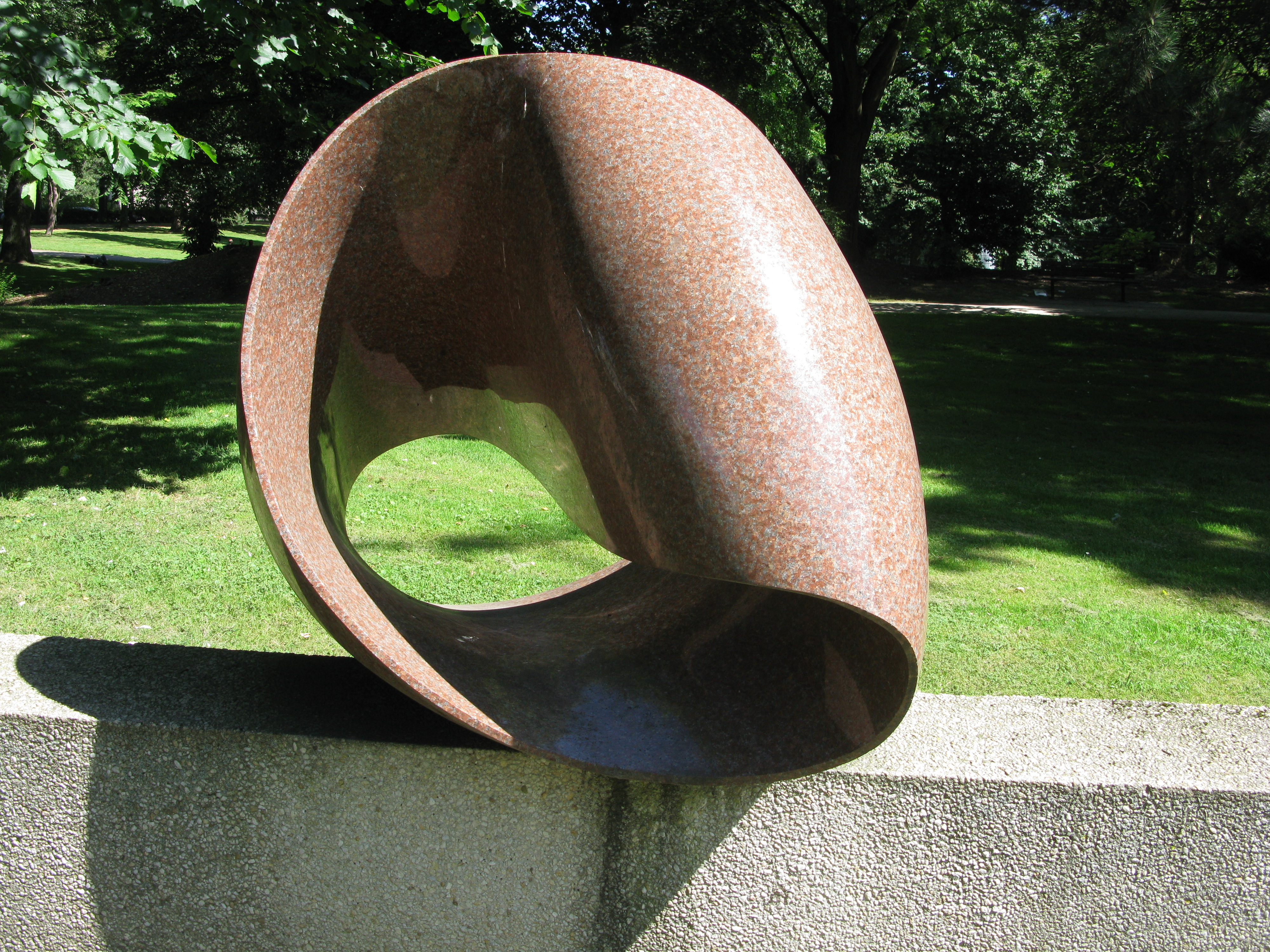 sculpture "unendliche Schleife" (of 1935-1953) by Max Bill; this version executed in Tranas granite in 1974; location: Stadtgarten next to the Hohenzollernstrasse, Essen, Germany